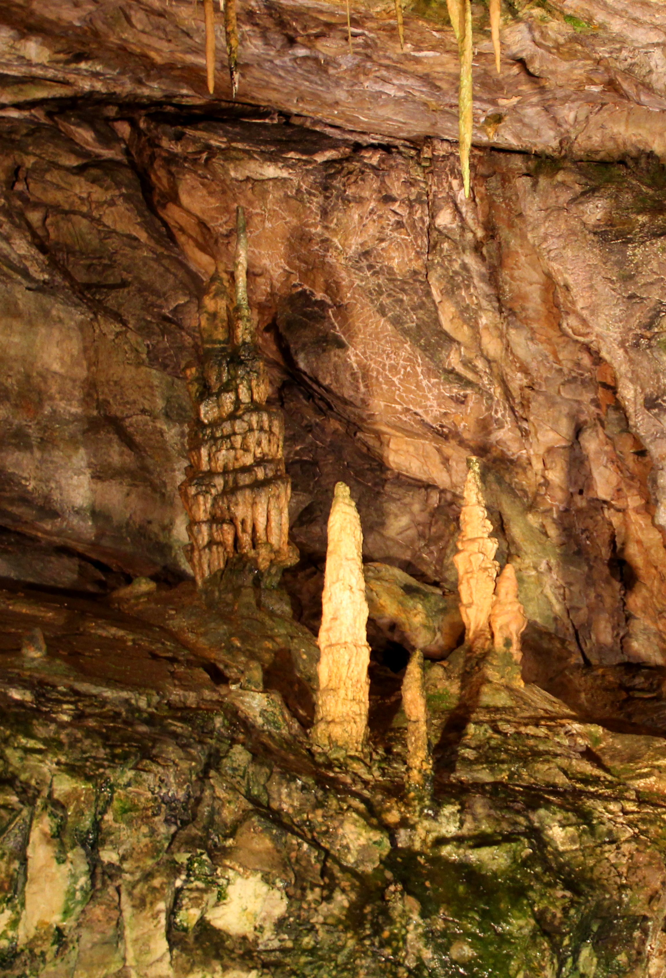 Rock formations in the St. Beatus Caves